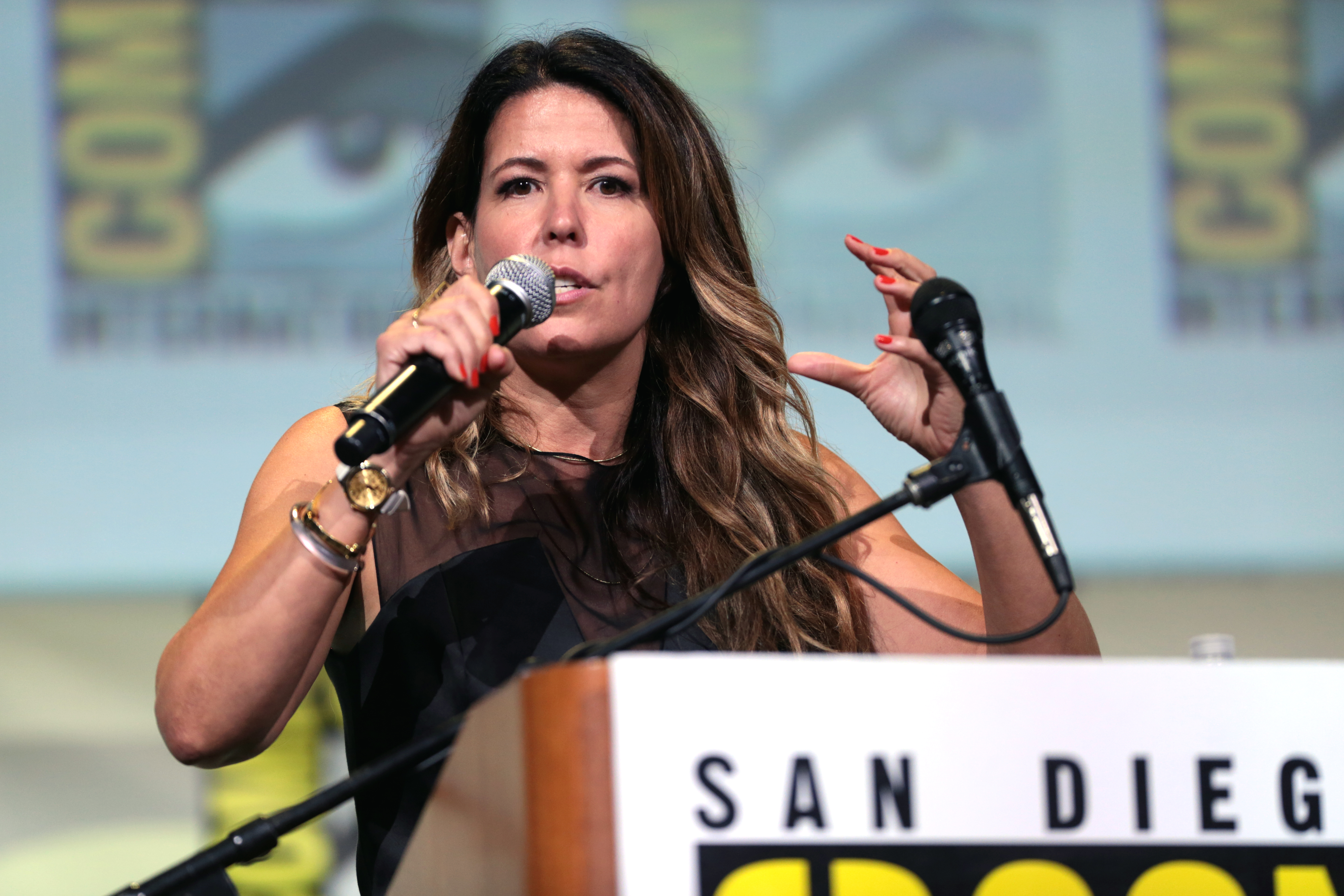 Patty Jenkins speaking at the 2016 San Diego Comic Con International, for "Wonder Woman", at the San Diego Convention Center in San Diego, California.